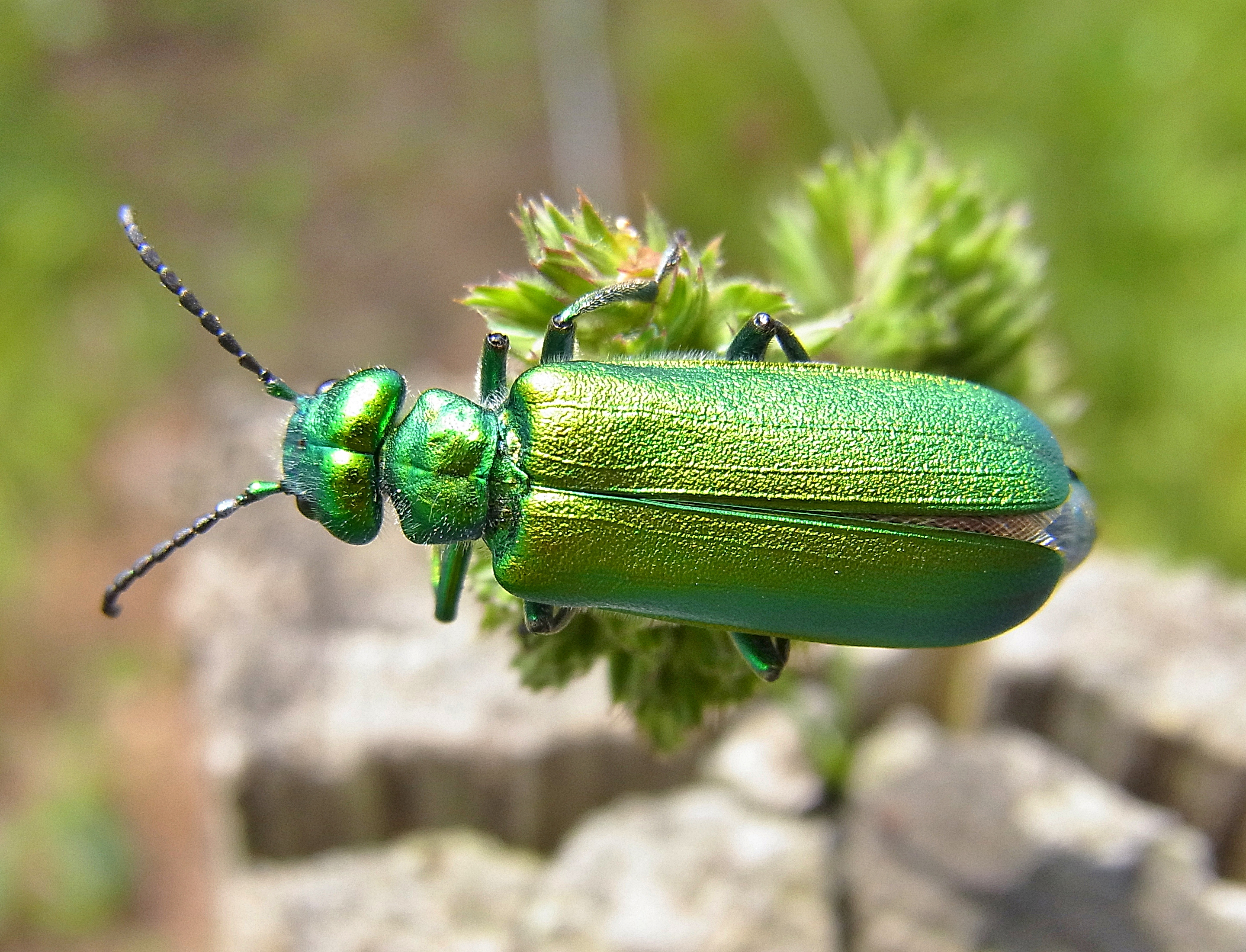 Lytta vesicatoria from Southern France, north-east of Carcassonne